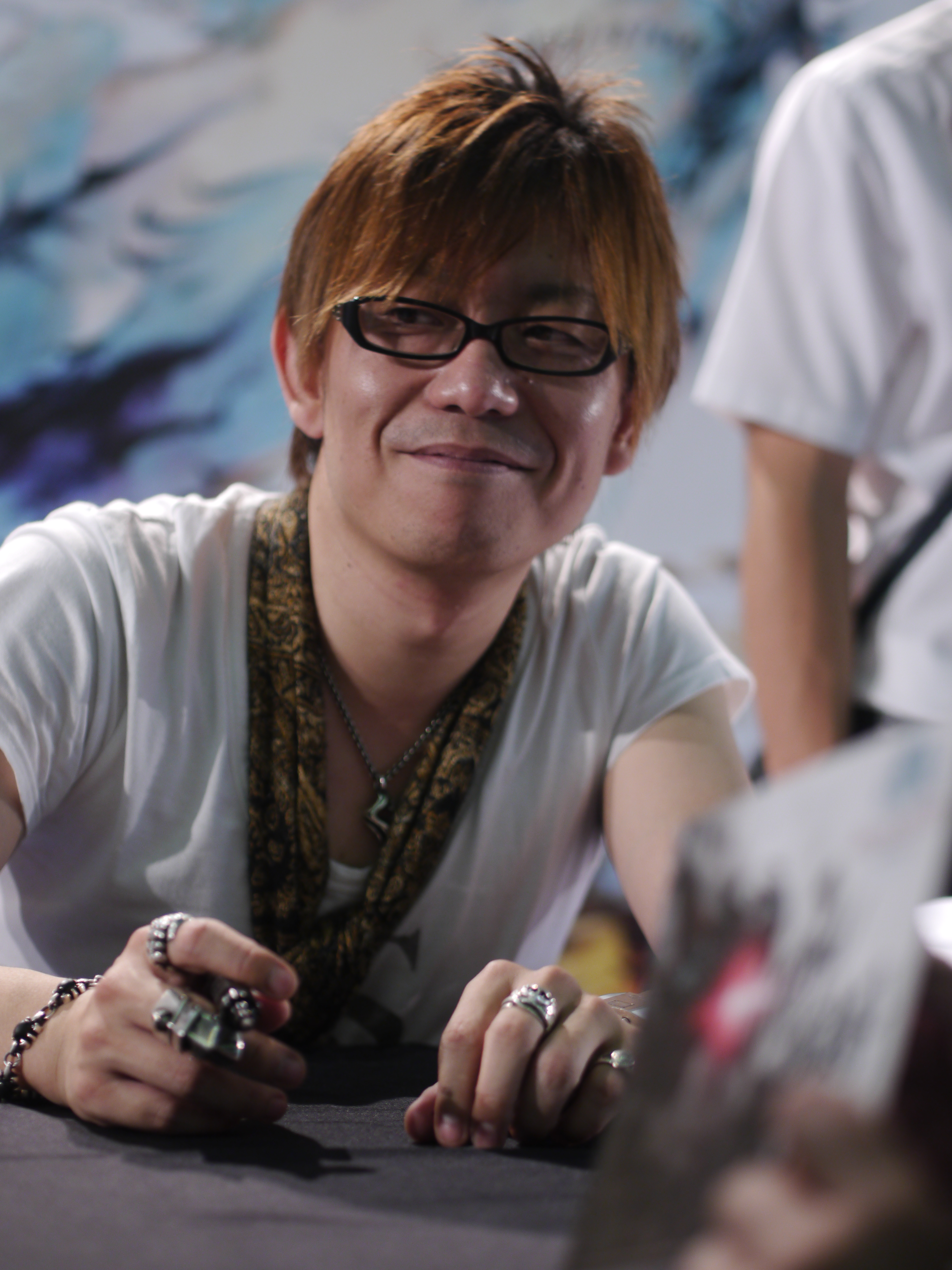 Japan Expo Festival, 14th impact